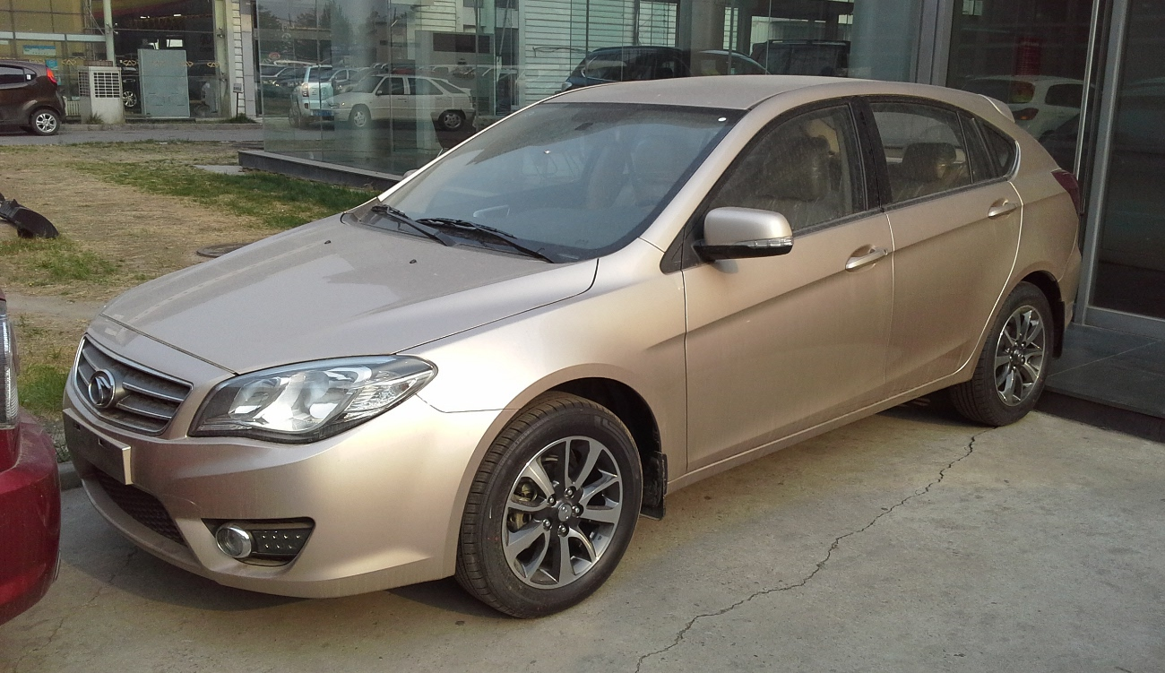 Soueast V6 Lingshi photographed in Beijing, China.